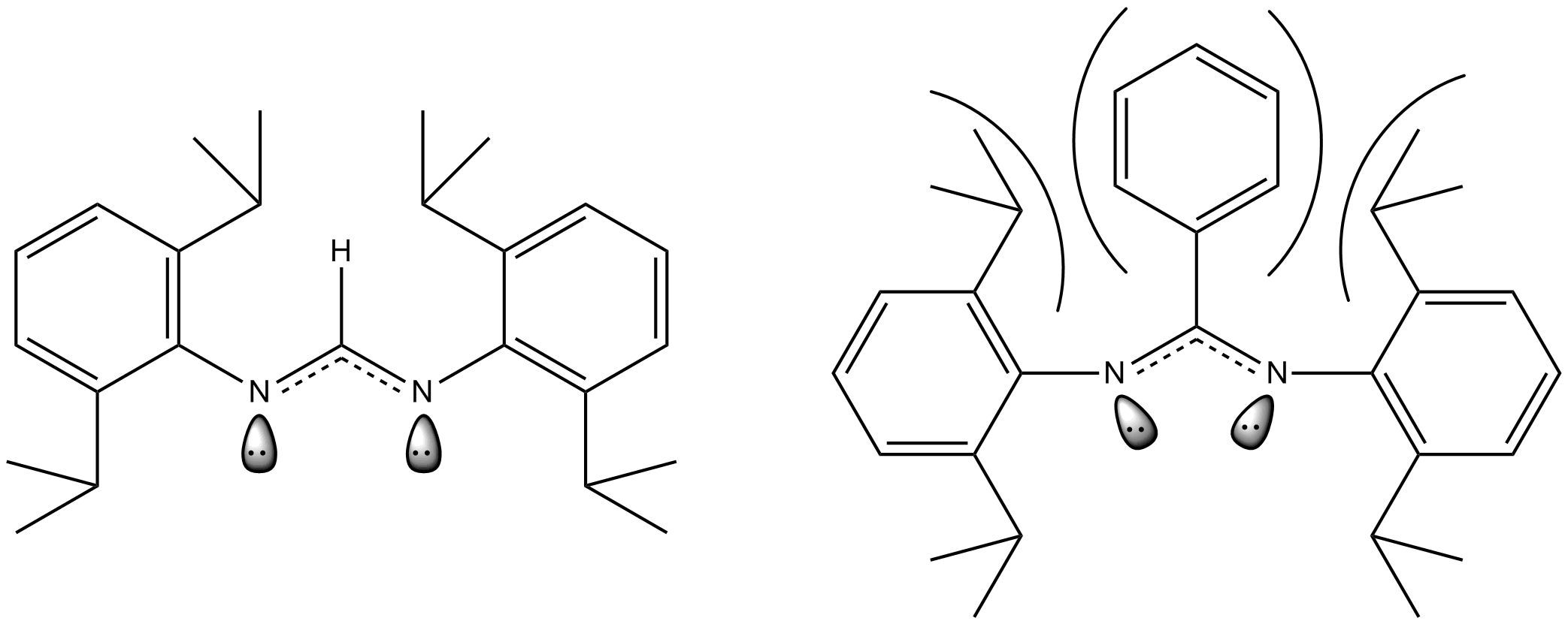 diagram showing the effects sterics have on a bidentate ligand